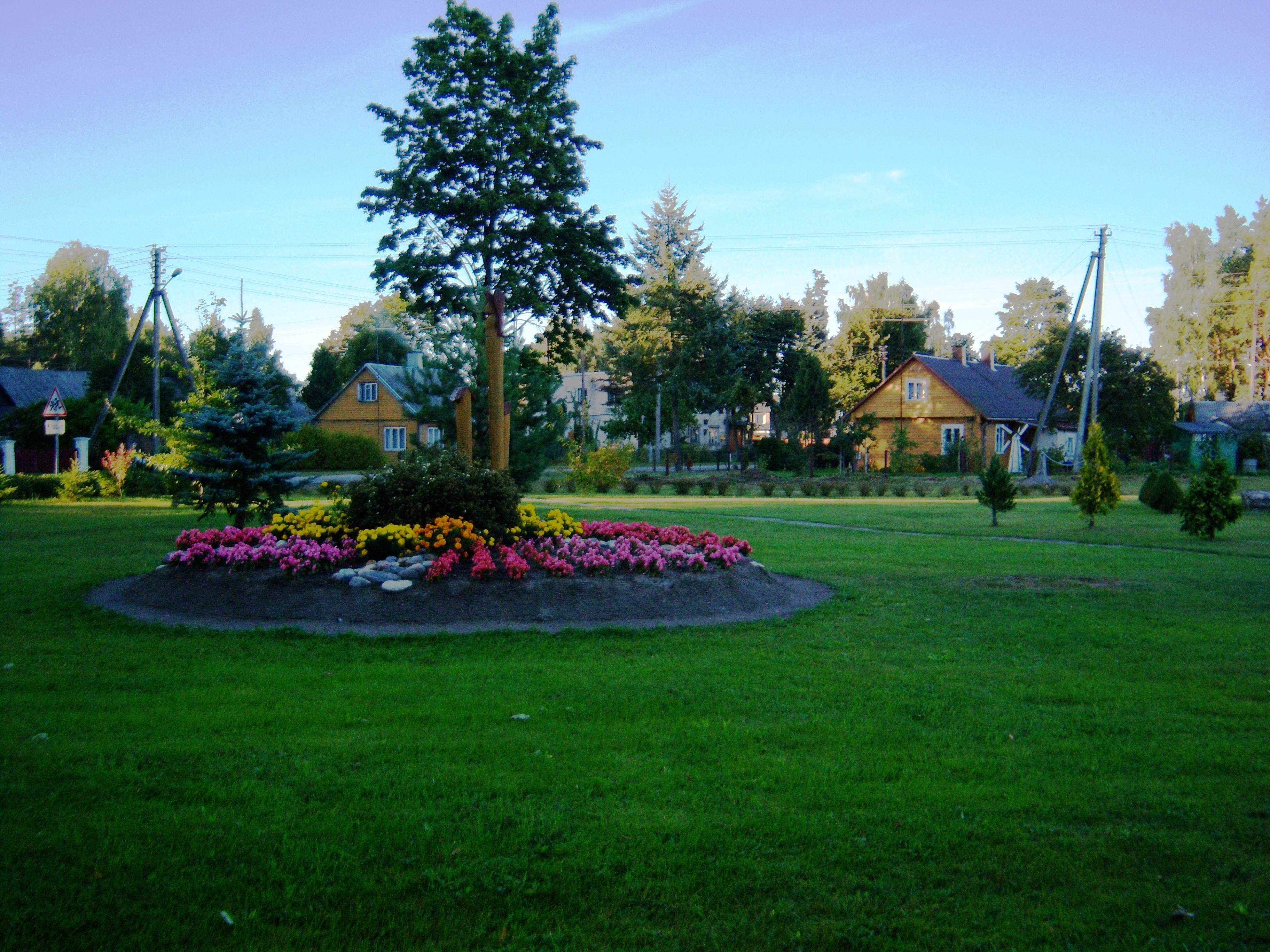 Bagotoji, Kazlų Rūda municipality, Lithuania